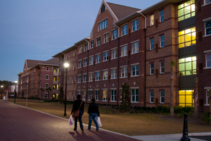 Housing Armstrong